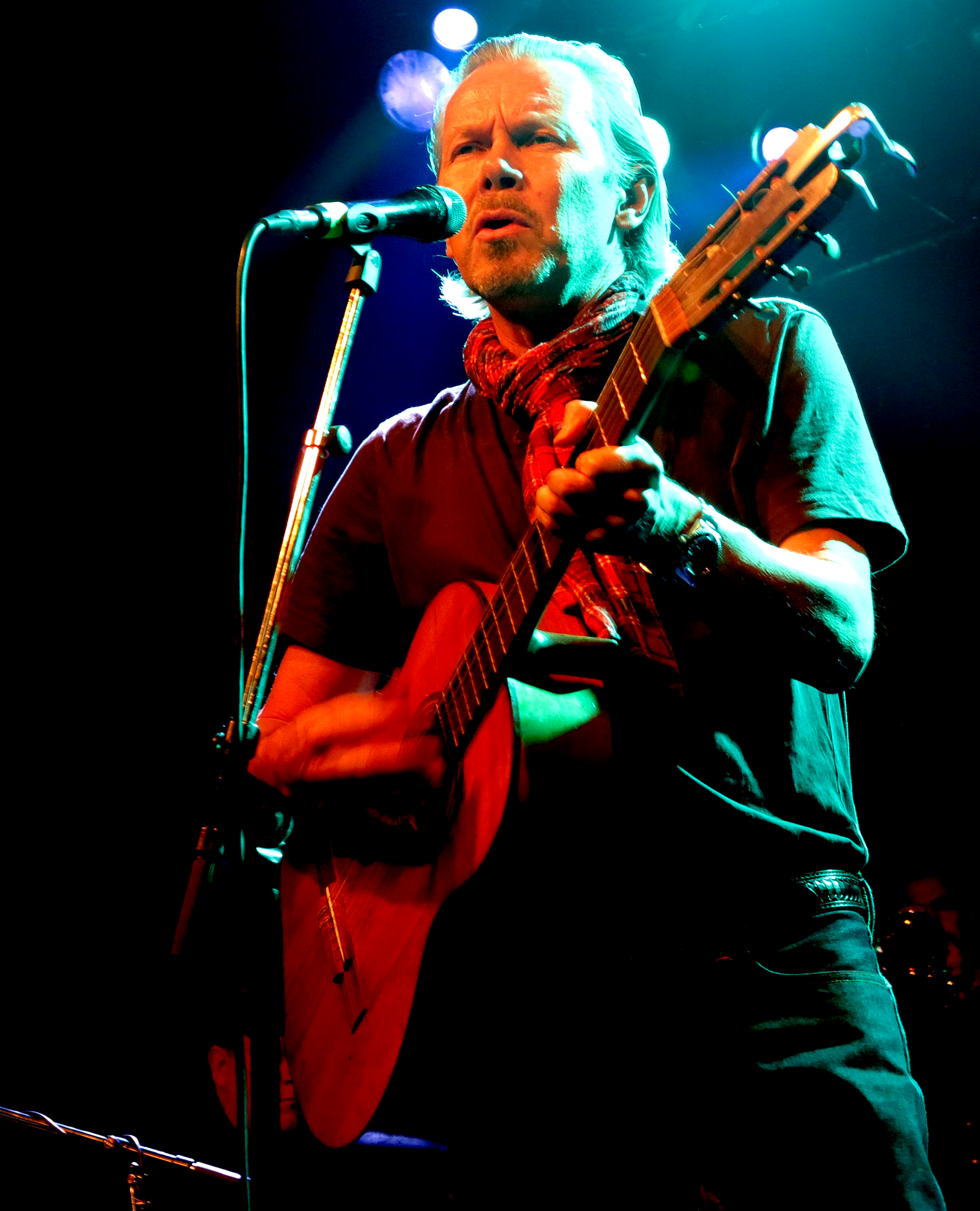 J. Karjalainen in Nov 2014, performing in Janne and Olli Haavisto’s Fixty-Sixty birthday concert at the Tavastia Club in Helsinki.